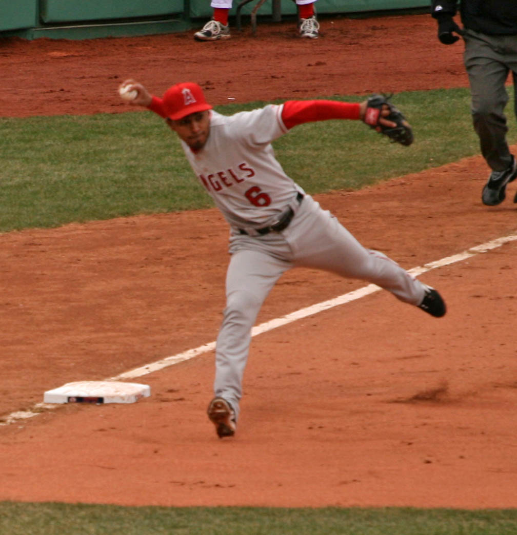 Maicer Izturis of the Los Angeles Angels of Anaheim throwing a runner out at Fenway Park 4/16/2007 20:17, 17 April 2007 . . Toasterb . . 1008×1044 (149,008 bytes)